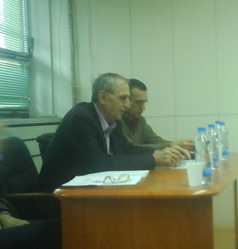 Ilija Kovačević